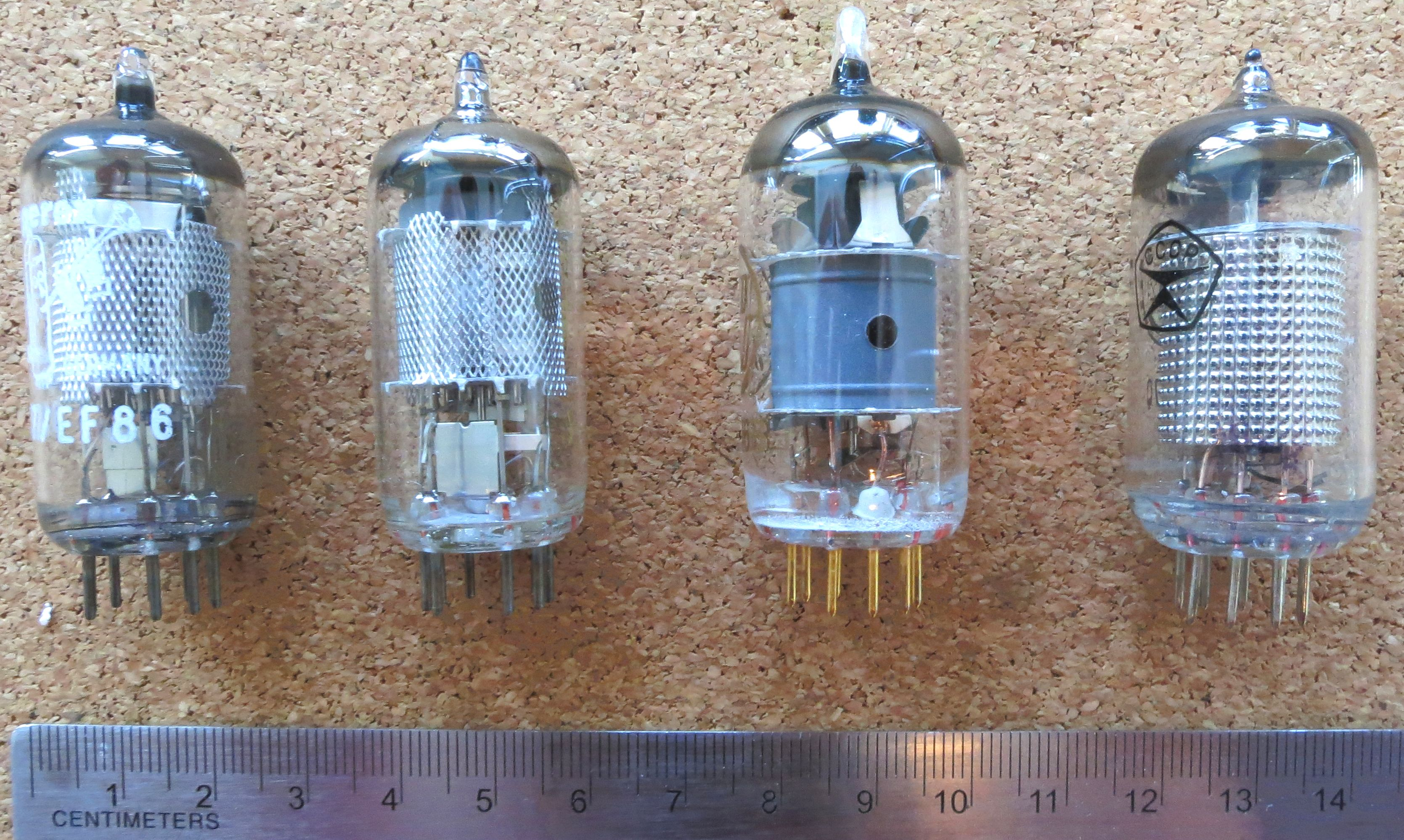 Four EF86-type tubes with rule in centimetres From left to right: Amperex/Philips 6267/EF86 from the 1960s; unknown Philips EF86; ; JJ/Tesla EF806S; and Soviet 6Ж32П/6J32P SED "Winged C"